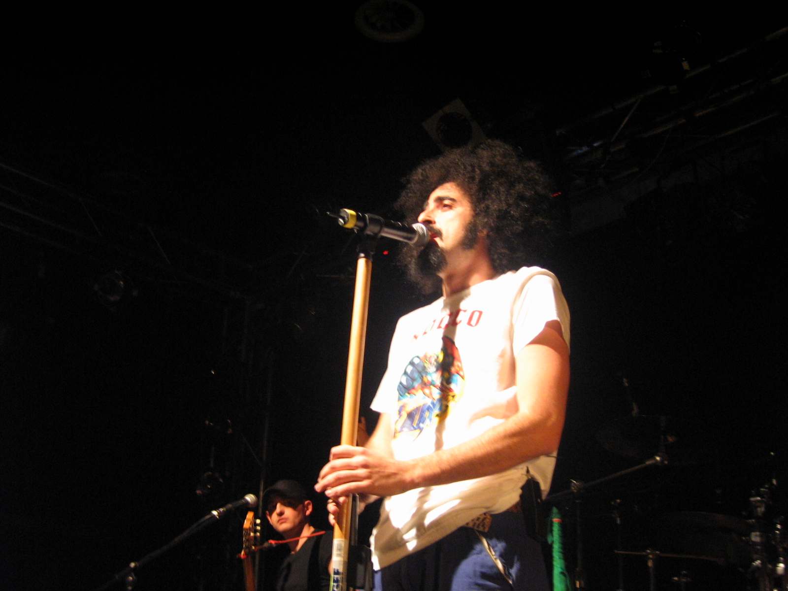 Italian rapper Caparezza live in Hiroshima Mon Amour, Turin, on 15 april 2006. Photo by Iron Bishop.